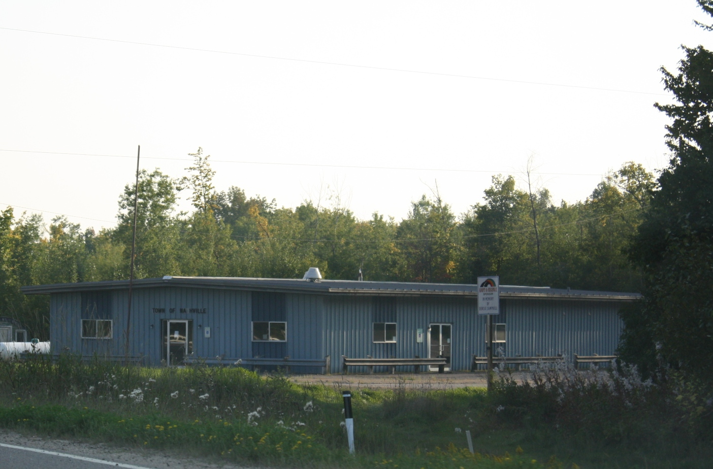 The town hall for the town of Nashville in Forest County, Wisconsin along Wisconsin Highway 55.